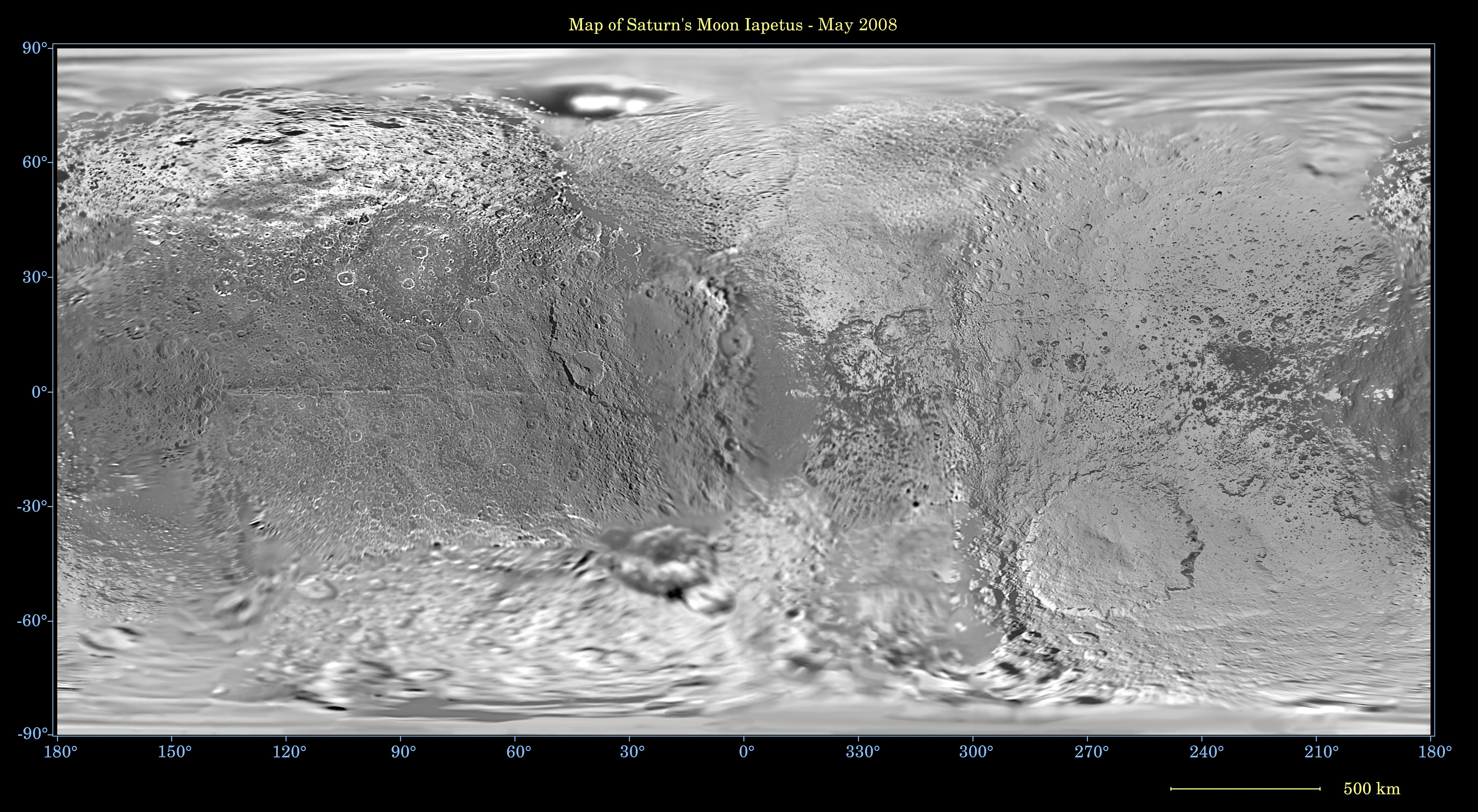 This global map of Saturn's moon Iapetus was created using images taken during Cassini spacecraft flybys, with Voyager images filling in the gaps in Cassini's coverage. Iapetus is the moon of Saturn which, curiously, has one bright hemisphere and one dark. The map is an equidistant (simple cylindrical) projection and has a scale of 803 meters (0.5 miles) per pixel at the equator. Some territory seen in this map was imaged by Cassini using reflected light from Saturn. The mean radius of Iapetus used for projection of this map is 736 kilometers (457 miles). The resolution of the map is 16 pixels per degree. This mosaic map is an update to the version released in January 2008 (see PIA08406). The Cassini-Huygens mission is a cooperative project of NASA, the European Space Agency and the Italian Space Agency. The Jet Propulsion Laboratory, a division of the California Institute of Technology in Pasadena, manages the mission for NASA's Science Mission Directorate, Washington, D.C. The Cassini orbiter and its two onboard cameras were designed, developed and assembled at JPL. The imaging operations center is based at the Space Science Institute in Boulder, Colo. For more information about the Cassini-Huygens mission visit The Cassini imaging team homepage is at